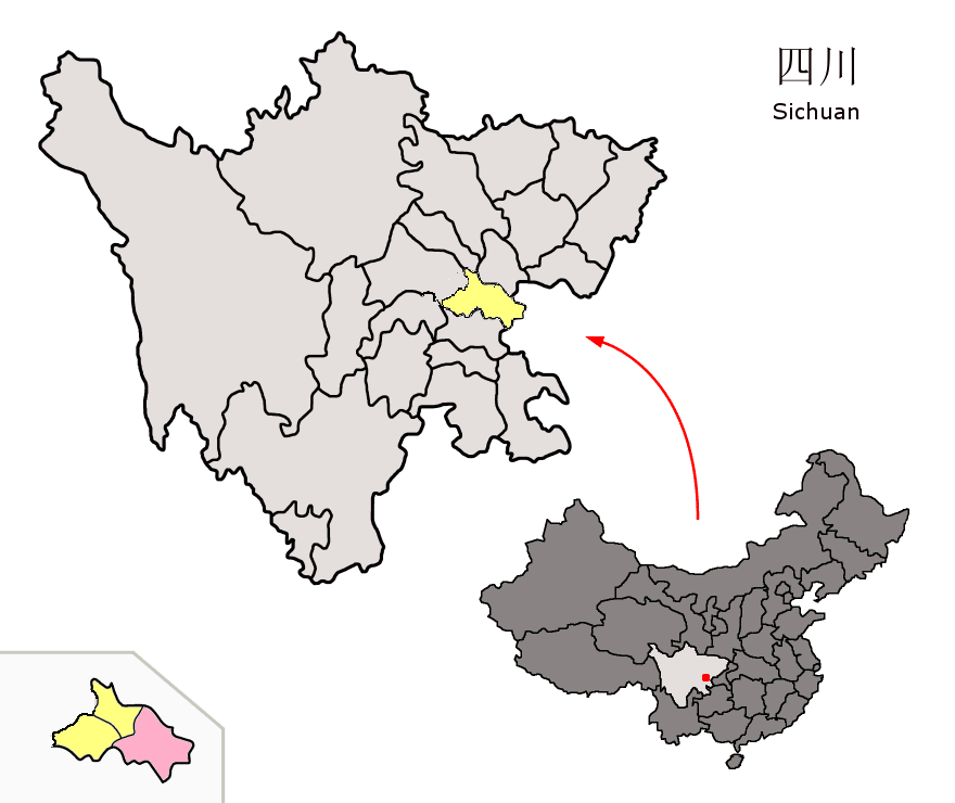 Location of Anyue County (pink) and Ziyang Prefecture (yellow) within Sichuan province of China Map drawn in october 2007 using various sources, mainly : Sichuan province administrative regions GIS data: 1:1M, County level, 1990 Sichuan Counties map from